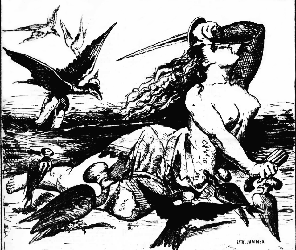 Paserile de prada ("Birds of Prey"), cartoon in the Romanian liberal magazine Asmodeu. Romania as a defeated warrior, holding a dagger and a pepperbox revolver, stripped by vultures, crows and ravens wearing kalpaks—which identify them as"boyars", in reference to the conservative government of Lascăr Catargiu; they are joined by a Prussian Eagle.